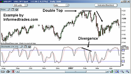 Stochastic used to forecast divergence.